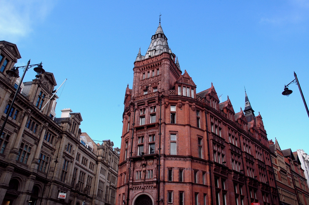 The Prudential Building in Nottingham